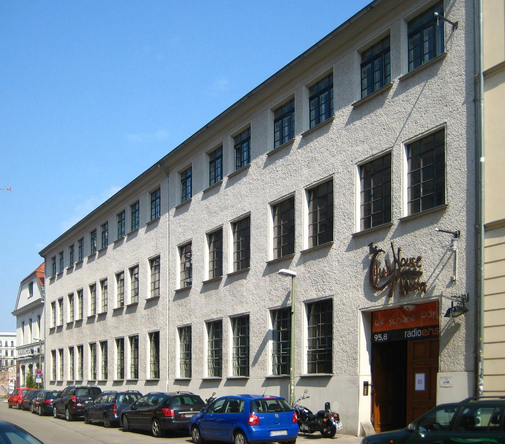 Former factory building at Kalkscheunenstraße No. 4-5, now Clubhouse Hostel Berlin. Together with the neighboring residential building Johannisstraße No. 2 it builds a complex which has been designated as a historic landmark.